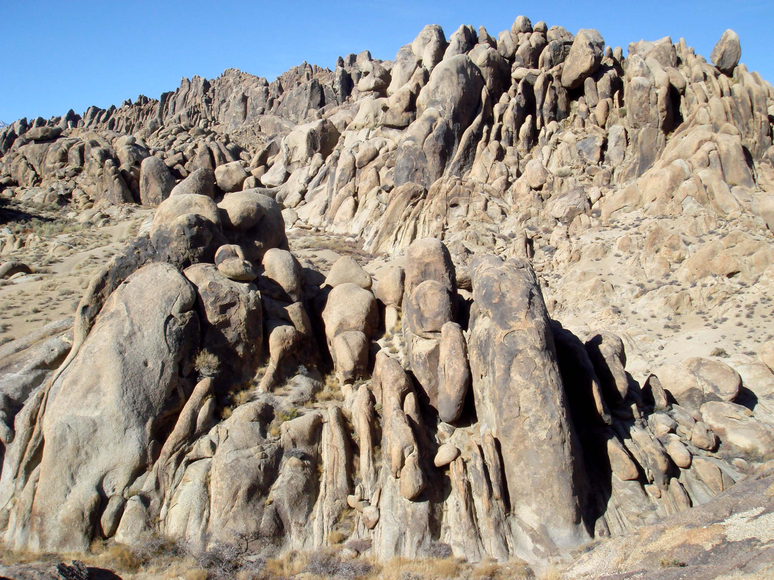 Typical hill in the Alabama Hills